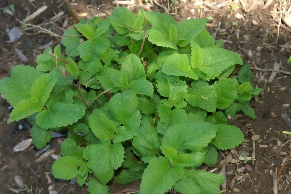 Location taken: the United States National Arboretum, Washington D.C.. Names: Melissa officinalis L., Acemotu, Alămîiţă, Anyaméhf, Anyaméhfű, Ārstniecības Melisa, Badranj Buye (Badrunj Buye), Badranjbuye, Badrnğbwýh, Baklut Ul Faristum, Balm, Balsamita Maior, Balsamito Major, Bar Blete, Bari I Bletës, Baume, Baume Mélisse, Bee Balm, bee herb, Bijenkruid, Buruiană De Stup, Buruiana Stupilor, Buruiana Stupului, Busuiocul Stupului, Cătuşnică, Cedronella, Citraria, Citrininė Melisa, Citroenkruid, Citroenmelisse, Citromfű, Citromszagú Mézfü, Citron Melisse, Citrona Meliso, Citronella, Citronelle, Citronenmelisse, Citronmelisa, Citronmeliso, Citronmeliss, Citronmelisse, Citronmētra, Citronnelle, Citrounelo, Citrounelo (Provençal), Common Balm, Dərman limonotu, Erba Limona, Erva cidreira, Erva-Cidreira, Farandj Moschk, Floarea Stupilor, Frauenkraut, Frnğ Mšḱ, garden balm, Garraiska, Gartenmelisse, Gelbe Zitronenmelisse, Hashisha Al-Namal, Hashisha An-Namal, Herbe Au Citron, Herbe Citron, Herzkraut, Herztrost, Hjärtansfröjd, Hjartafró, Hjartafró, Hjärtansfröjd, Hjertensfryd